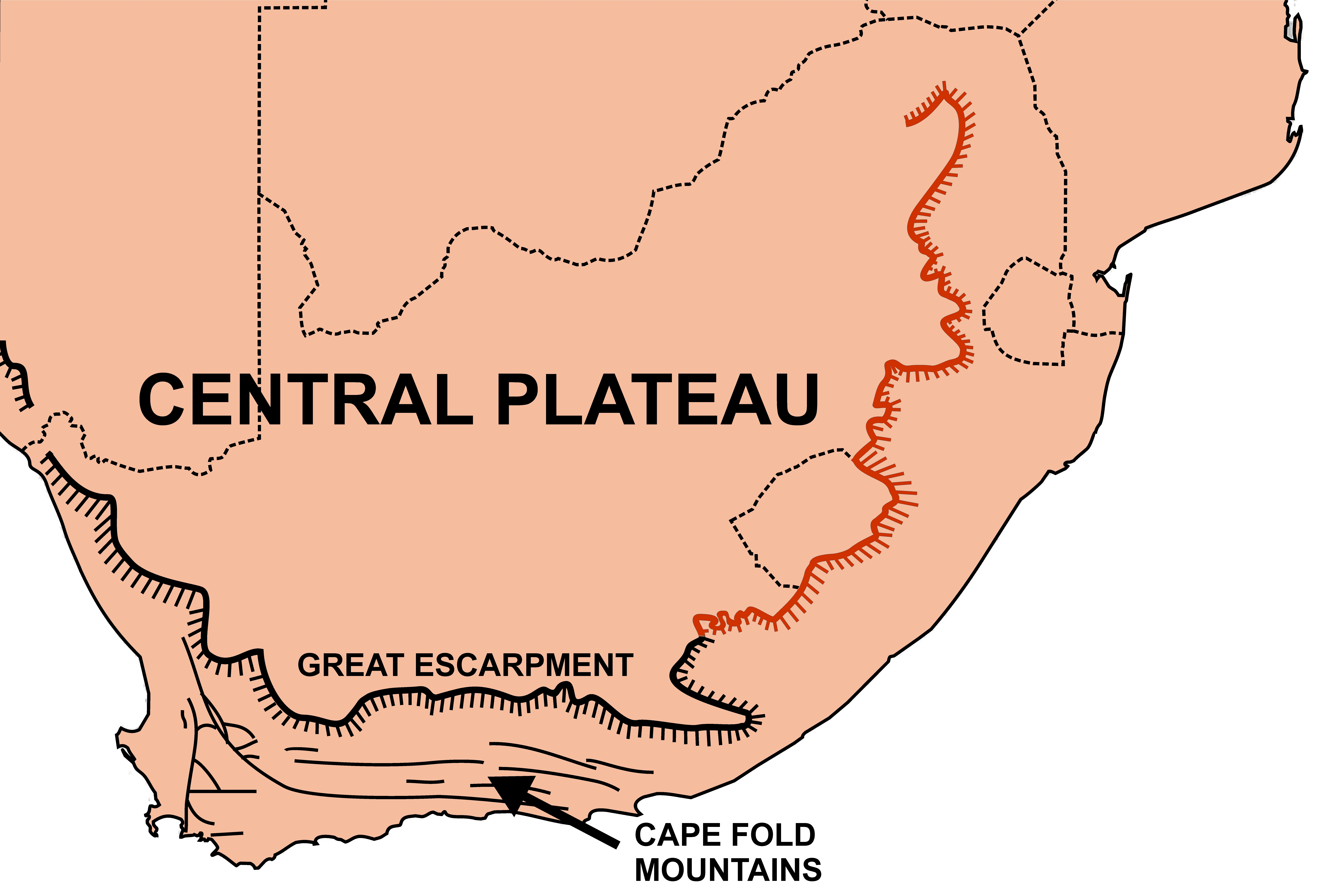 The Southern African Central Plateau, surrounded by the Great Escarpment. The portion of the Escarpment colored in red is called the "Drakensberg"